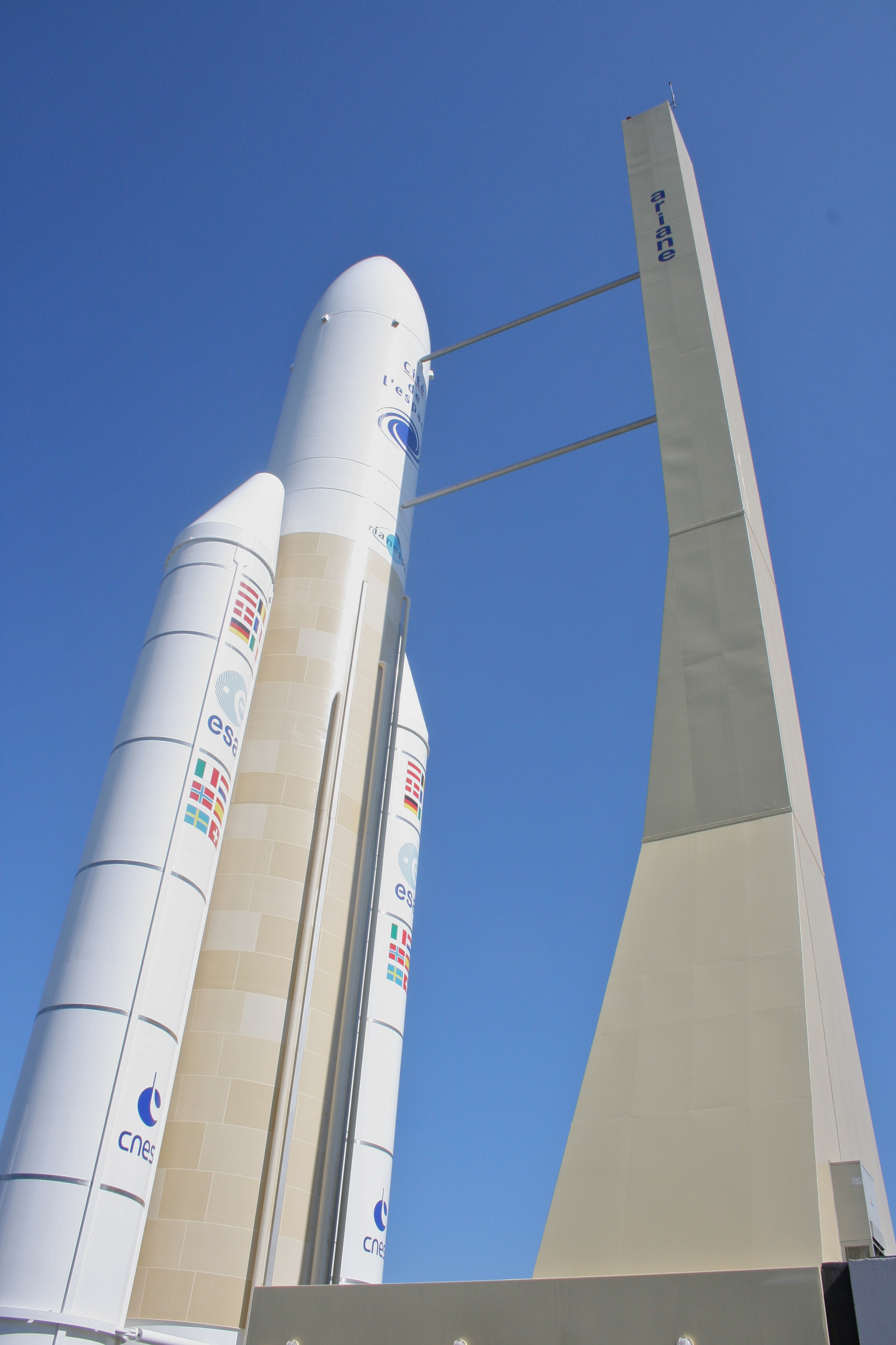 An Ariane 5 rocket at the Cite de l'Espace in Toulouse, France.